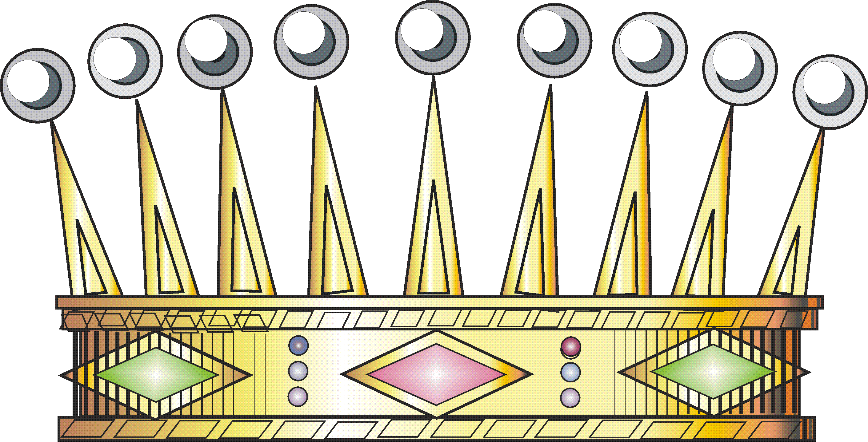 Counts Crown